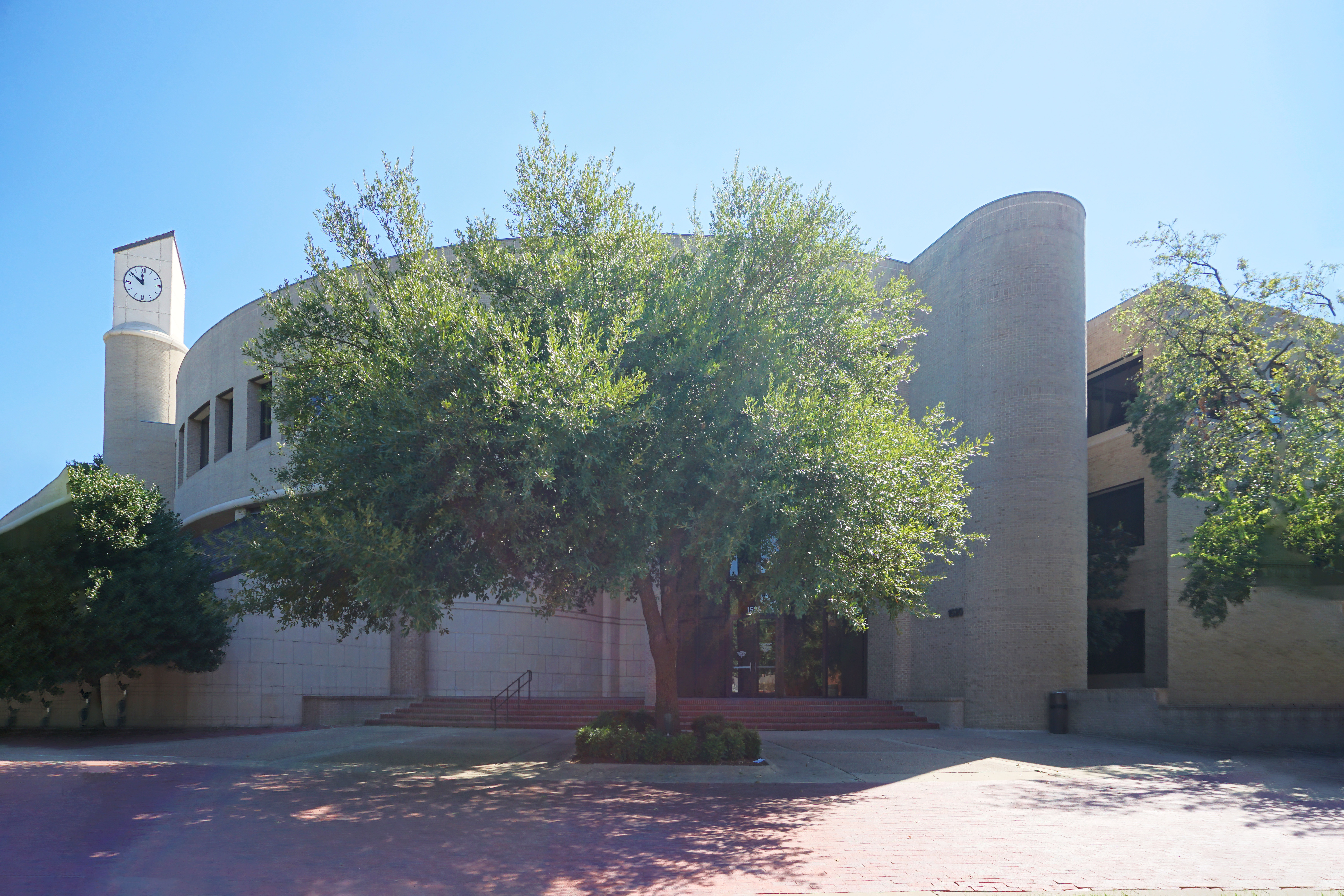 The Municipal Center in Plano, Texas (United States).